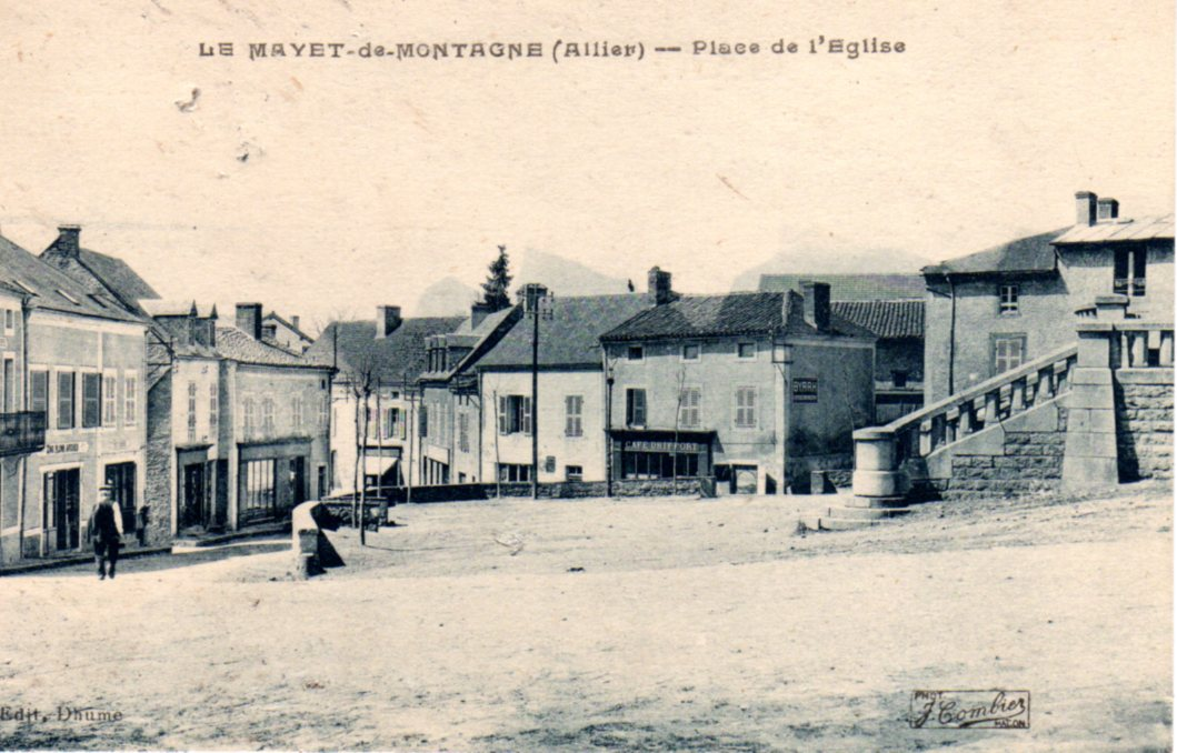 View of the church square in the French village Le Mayet-de-Montagne